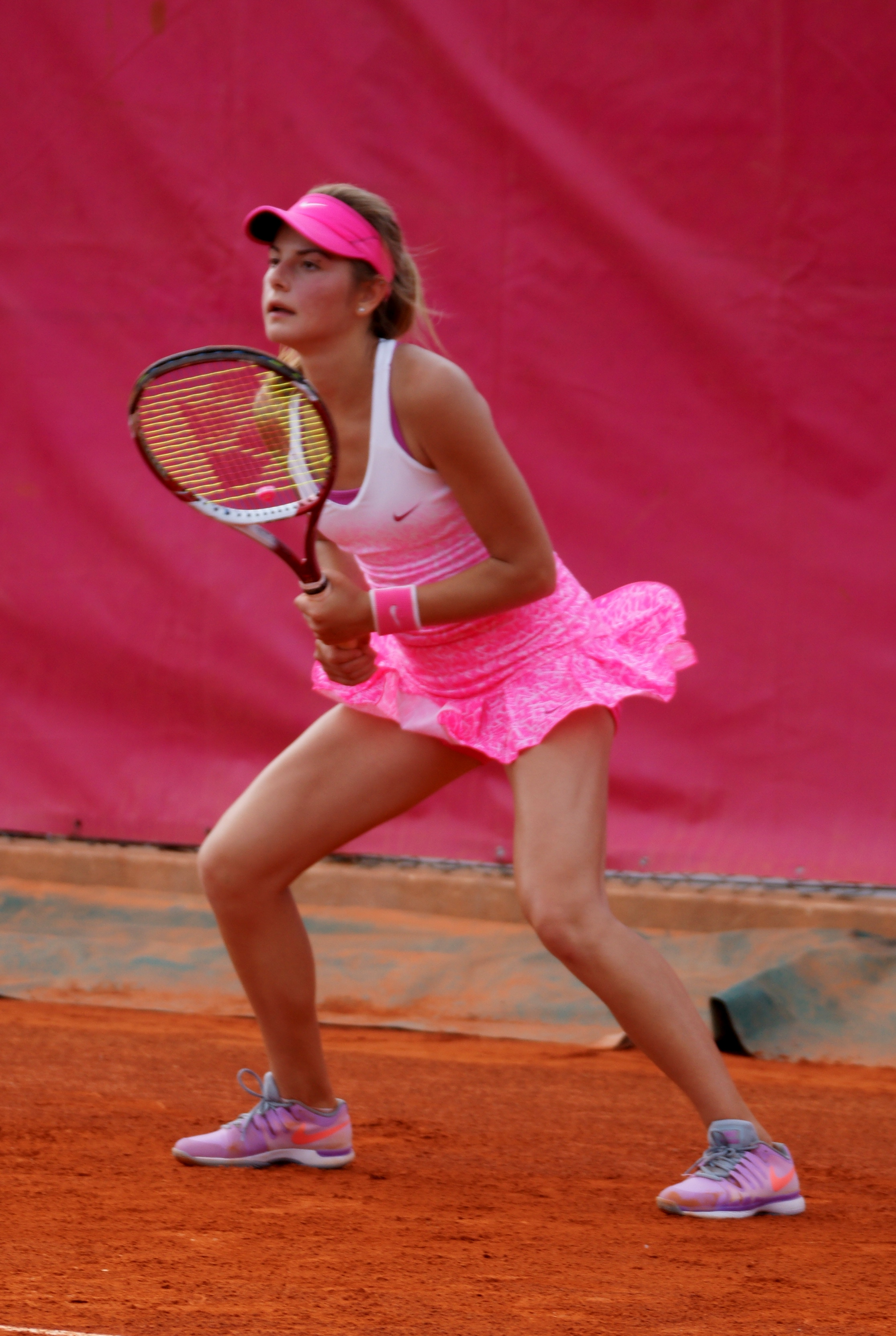 Katarina Zavatska, Open ITF Cagnes 2015